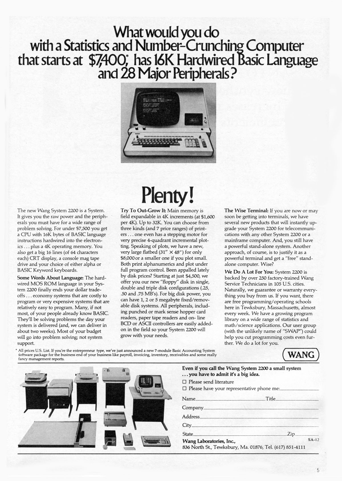 The Wang System 2200 was introduced in May 1973 and was the first in a family of computers that were produced until the early 1990s.[1] The Shugart developed the 5.25 inch floppy disk for the 2200 PCS II that was introduced in June 1977.